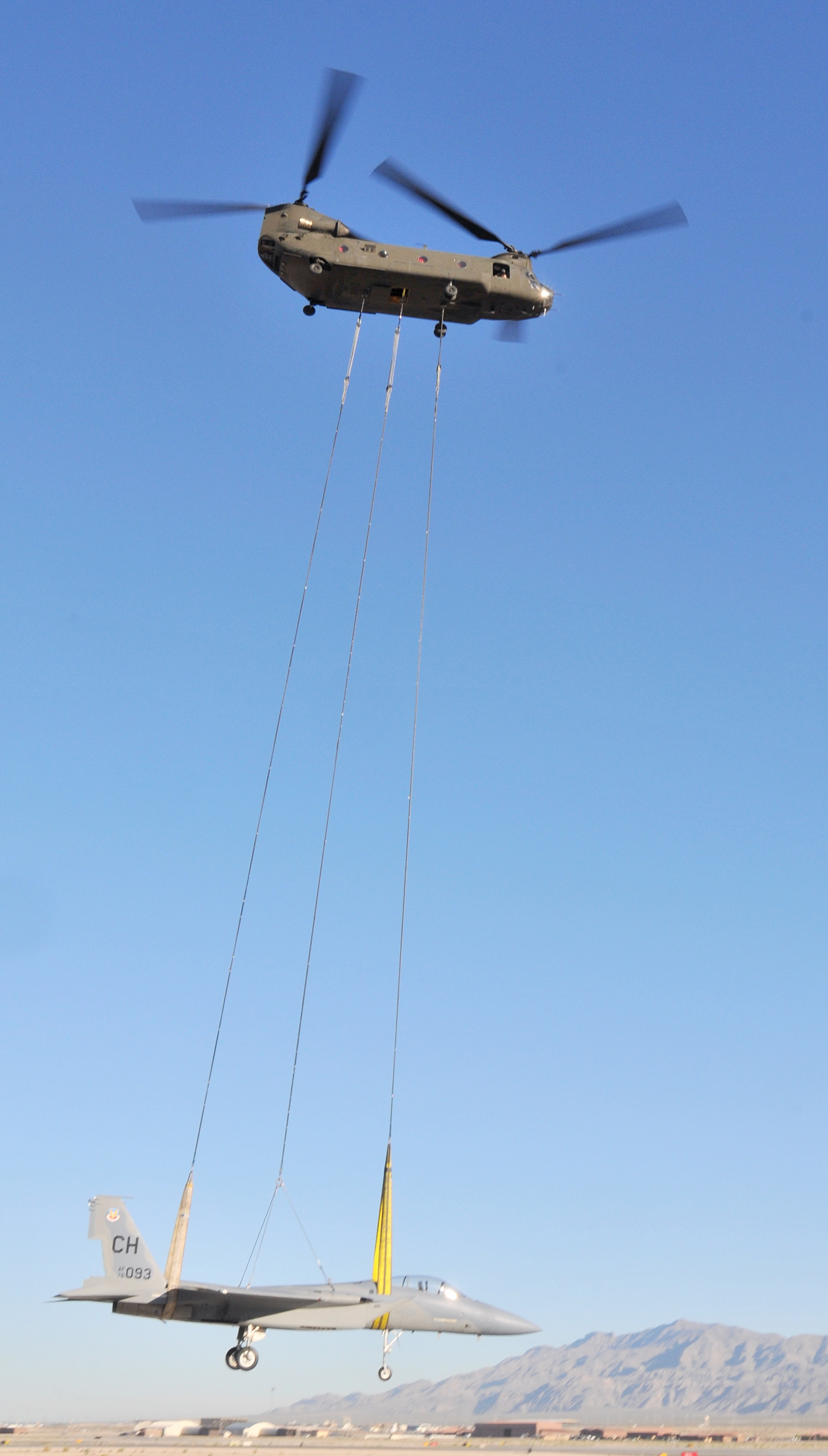 A Nevada National Guard CH-47 Chinook lifts an F-15A Eagle from Nellis Air Force Base, Nev., to its new home at nearby Creech AFB, April 22. The Eagle, a non-flying maintenance trainer, made the 45-minute journey at a sedate 70 mph to become a Creech fire department pilot rescue trainer. (U.S. Air Force photo by Gary Emery)